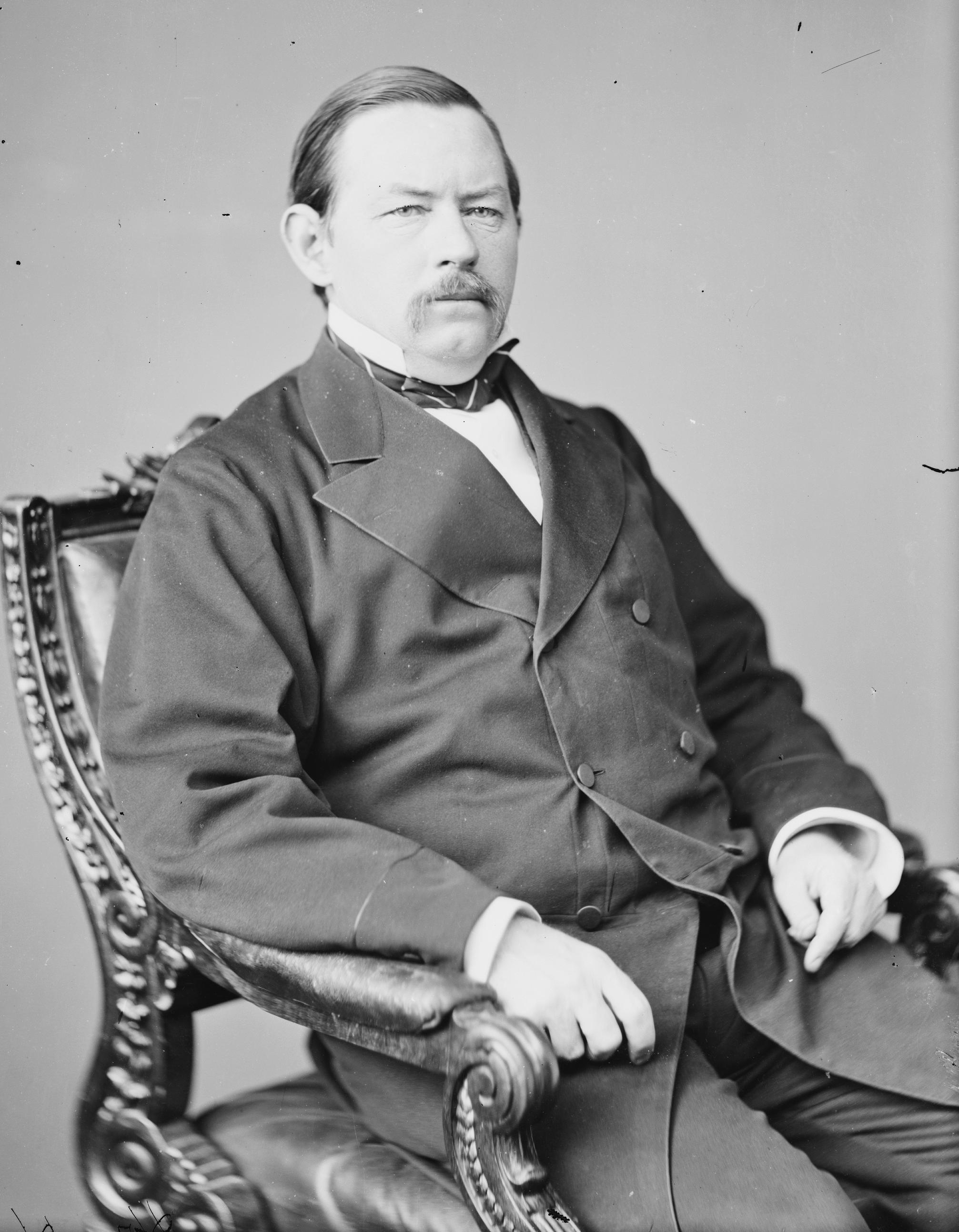 Horace Harrison. Library of Congress description: "Harrison, Hon. H.H., U.S.A., M.C."